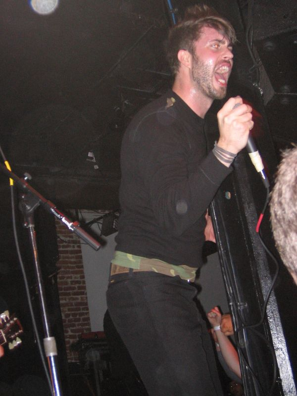 Christian rock music group Project 86. Attributed to Flickr user JoshMock. From Project 86 concert 5 March 2006 in San Luis Obispo, California, USA. Licenced cc-by-2.0.